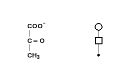 Pyruvate